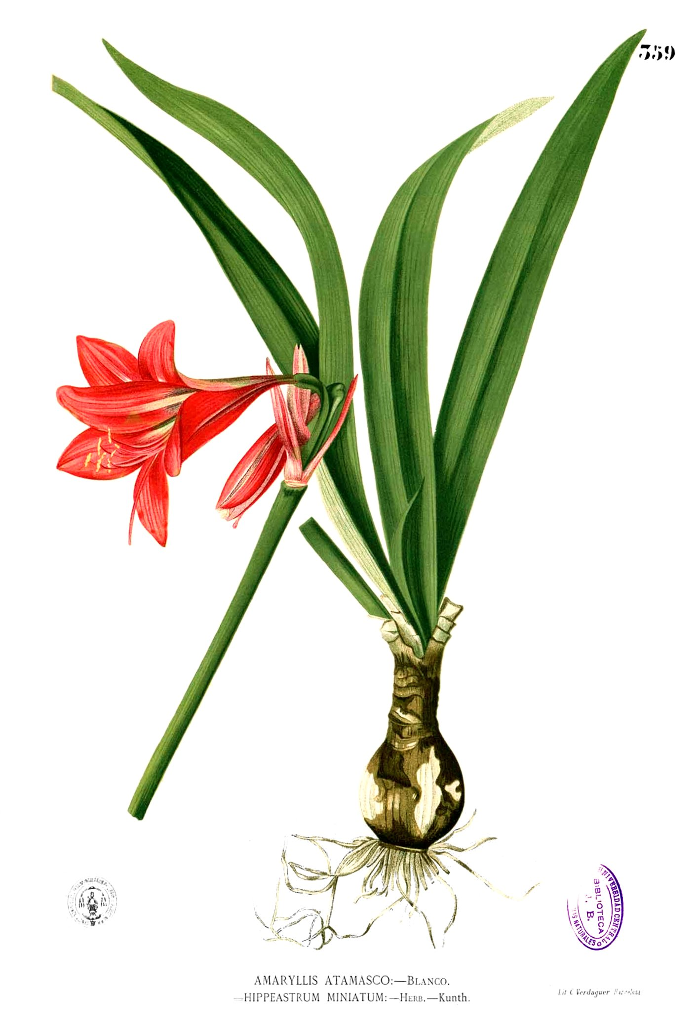 Plate from book